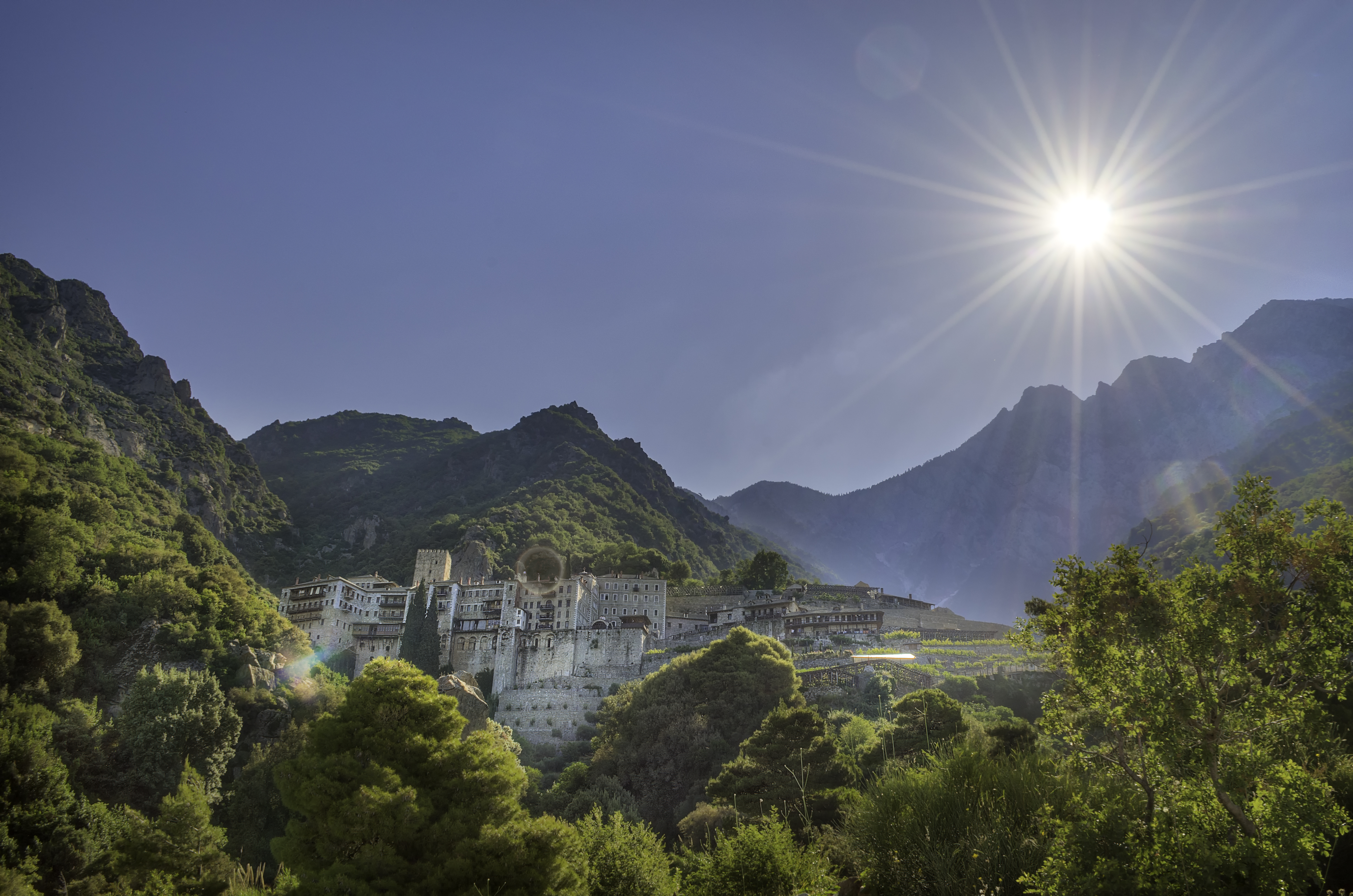 8AM